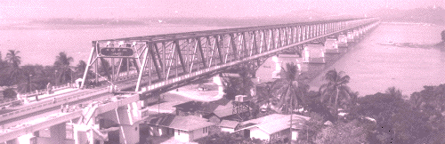 Bridge over Salween river between Malawaing and Mottama - Pont sur la Salouen, entre Moulmein et Martaban